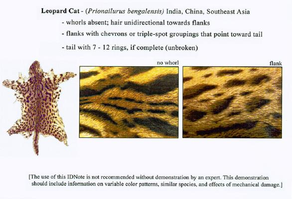 Description: Identifcation guide for a leopard cat (Prionailurus bengalensis) pelt